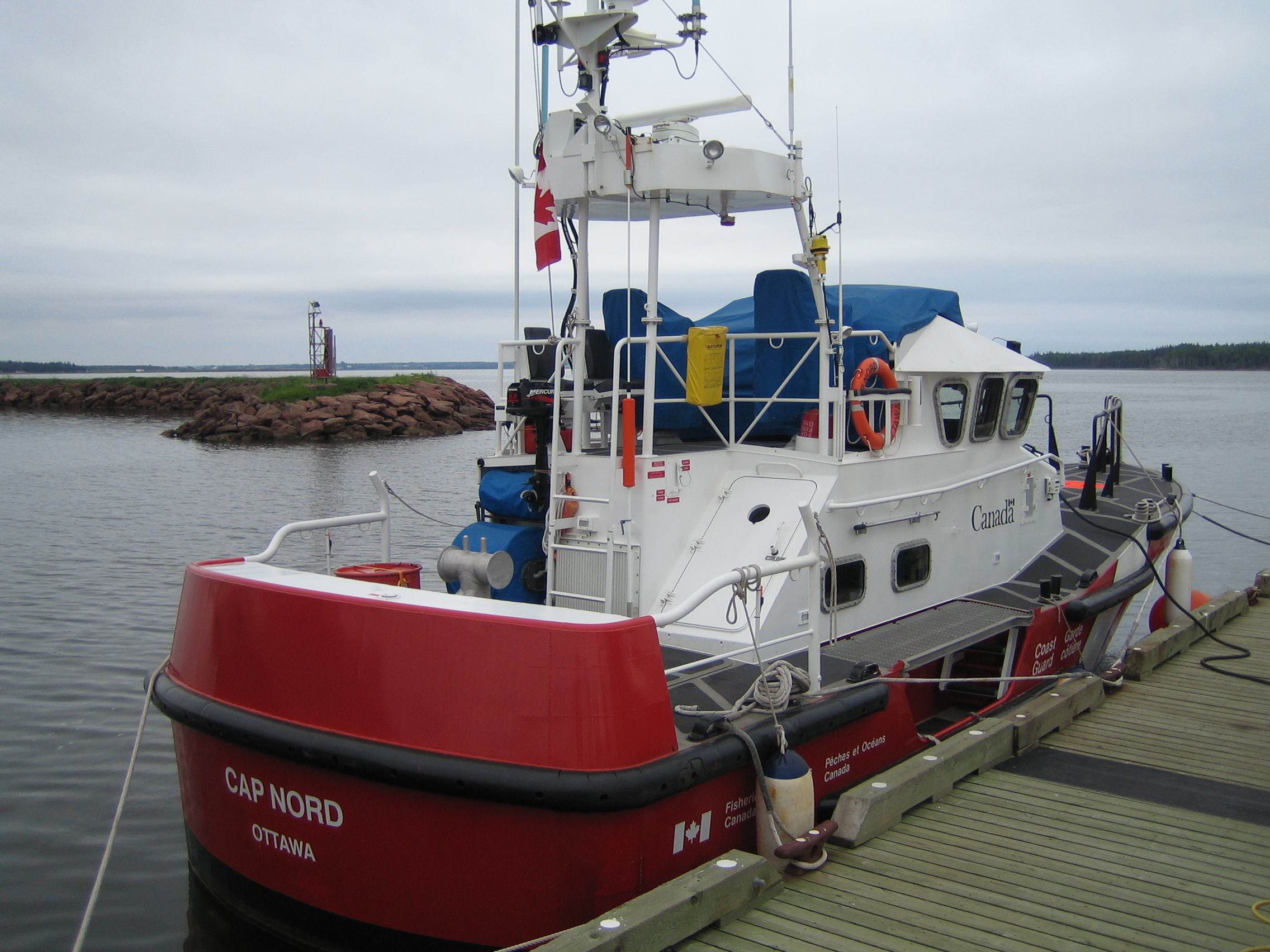 Canadian Coast Guard PEI